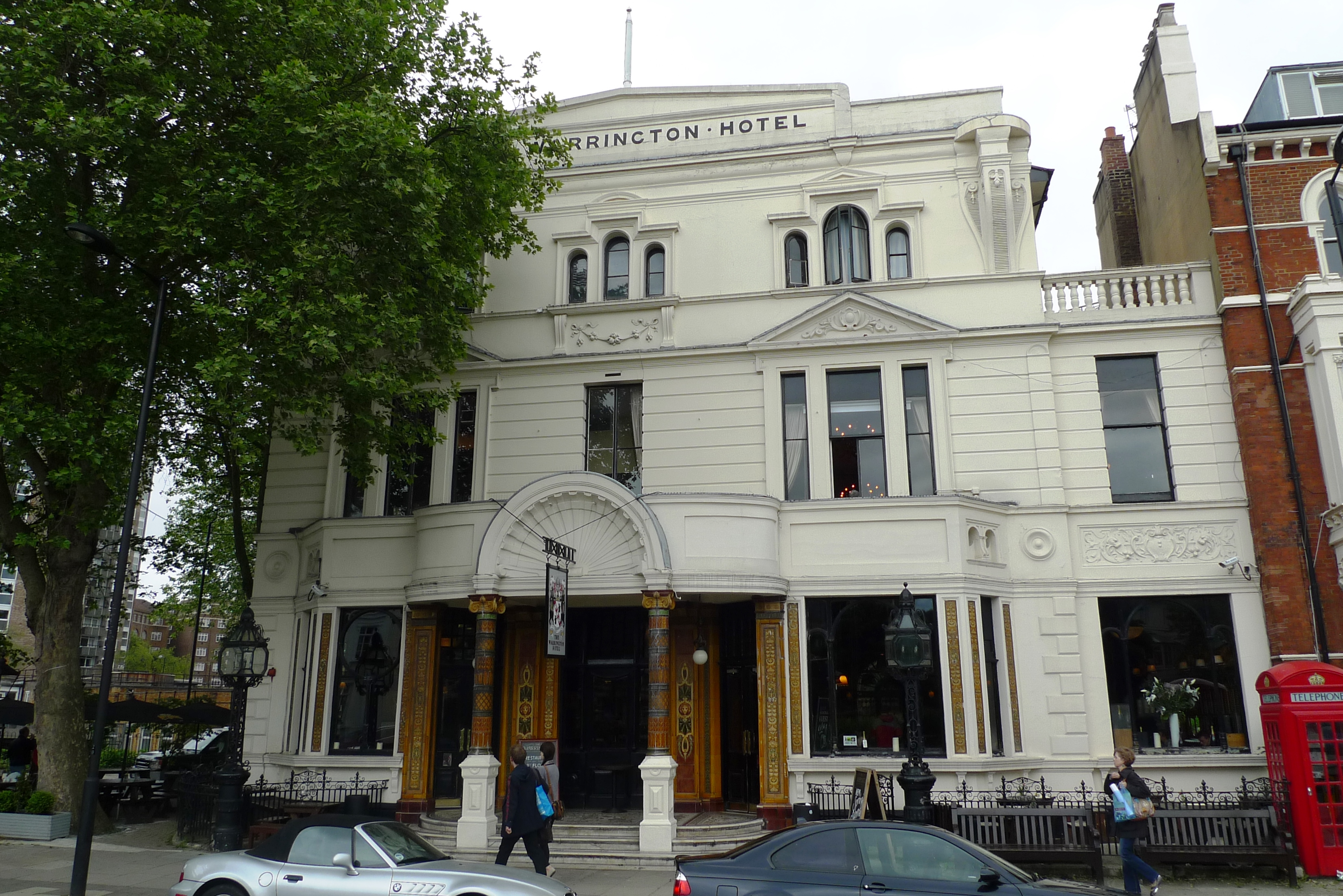 A grand old pub building with some beautiful features, including the door tiling. Address: 93 Warrington Crescent. Owner: Faucet Inn Pub Co (website); Gordon Ramsay Holdings (former). Links: London Pubology